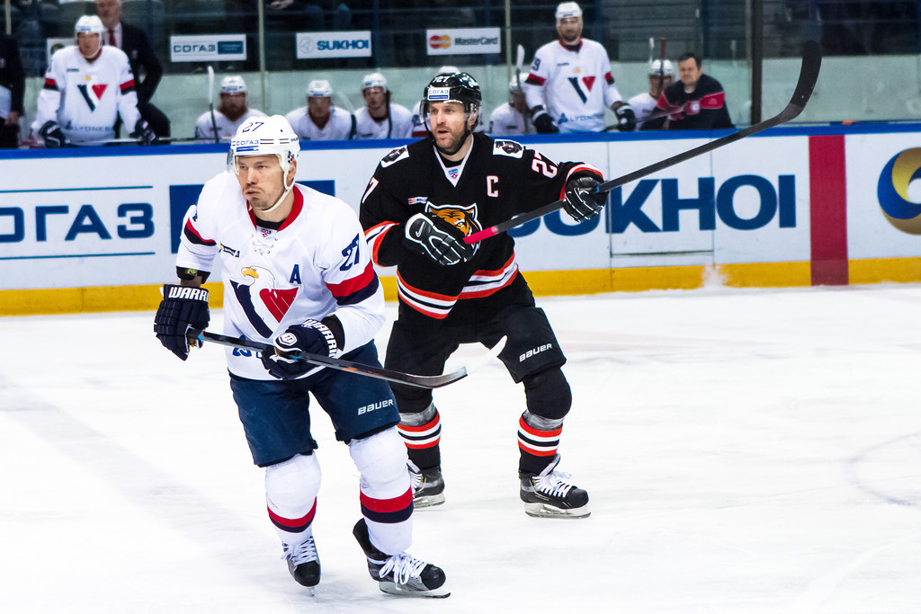 Amur Khabarovsk defenceman Vitaly Atyushov (in dark) and HC Slovan forward Ladislav Nagy (in white) during KHL game on February 4, 2016.